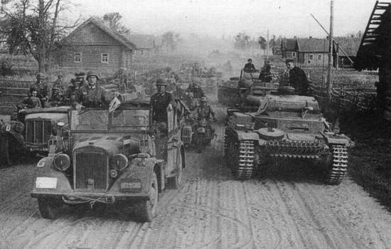 Wehrmacht nearby Pruzhany, Belarus. June 1941